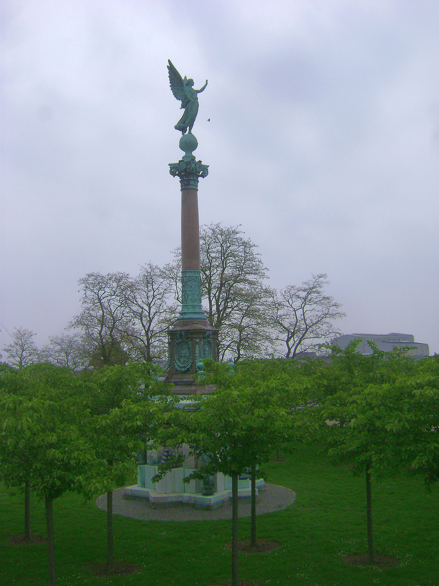 Denmark. Capital Region. Copenhagen. Memorial on Ivar Huitfeldt